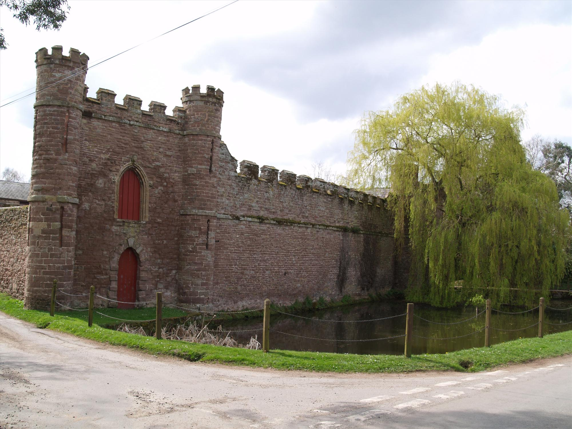 Bollitree castle, near to Weston Under Penyard, Herefordshire, Great Britain. A folly castle